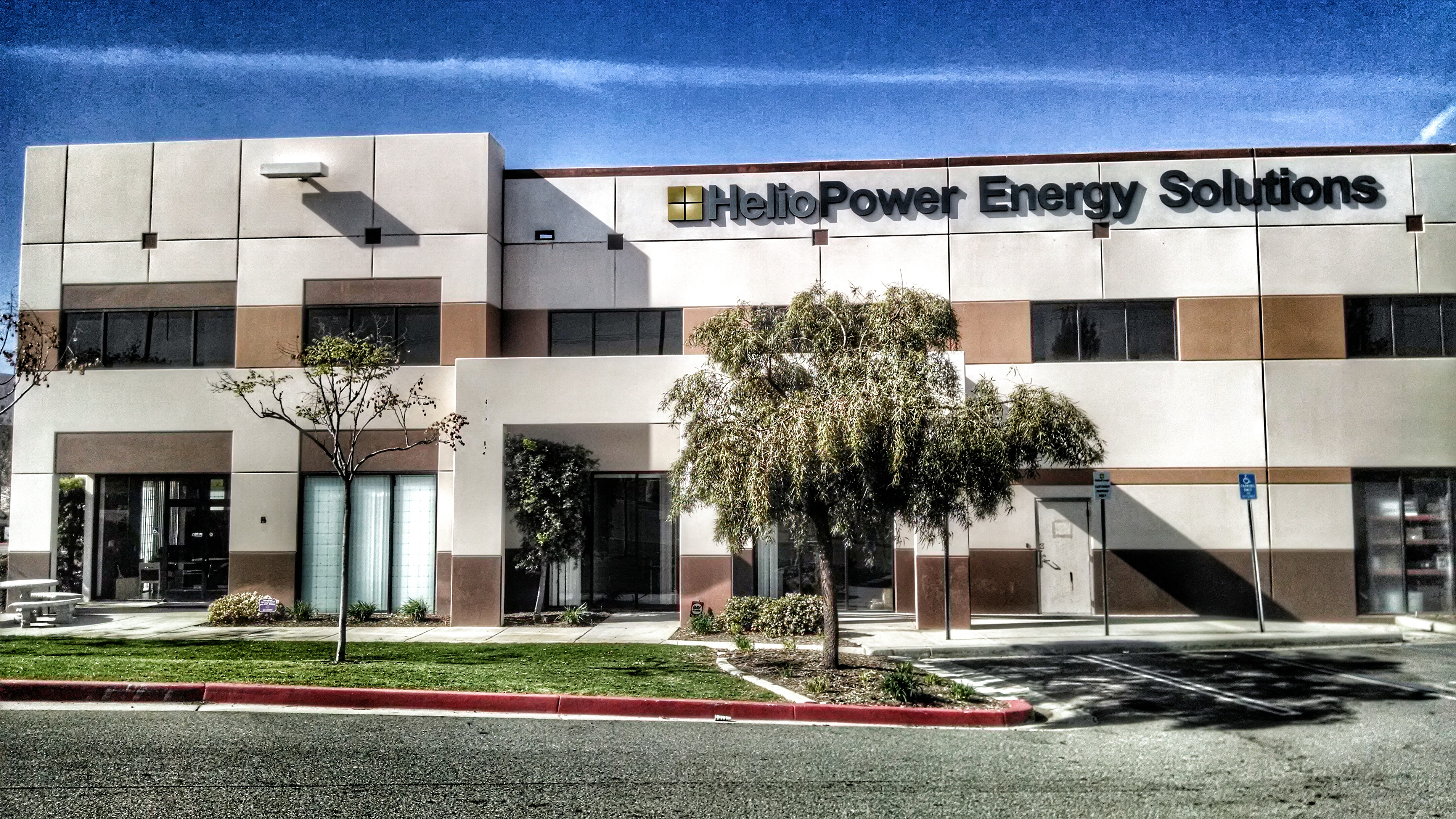 HQ picture